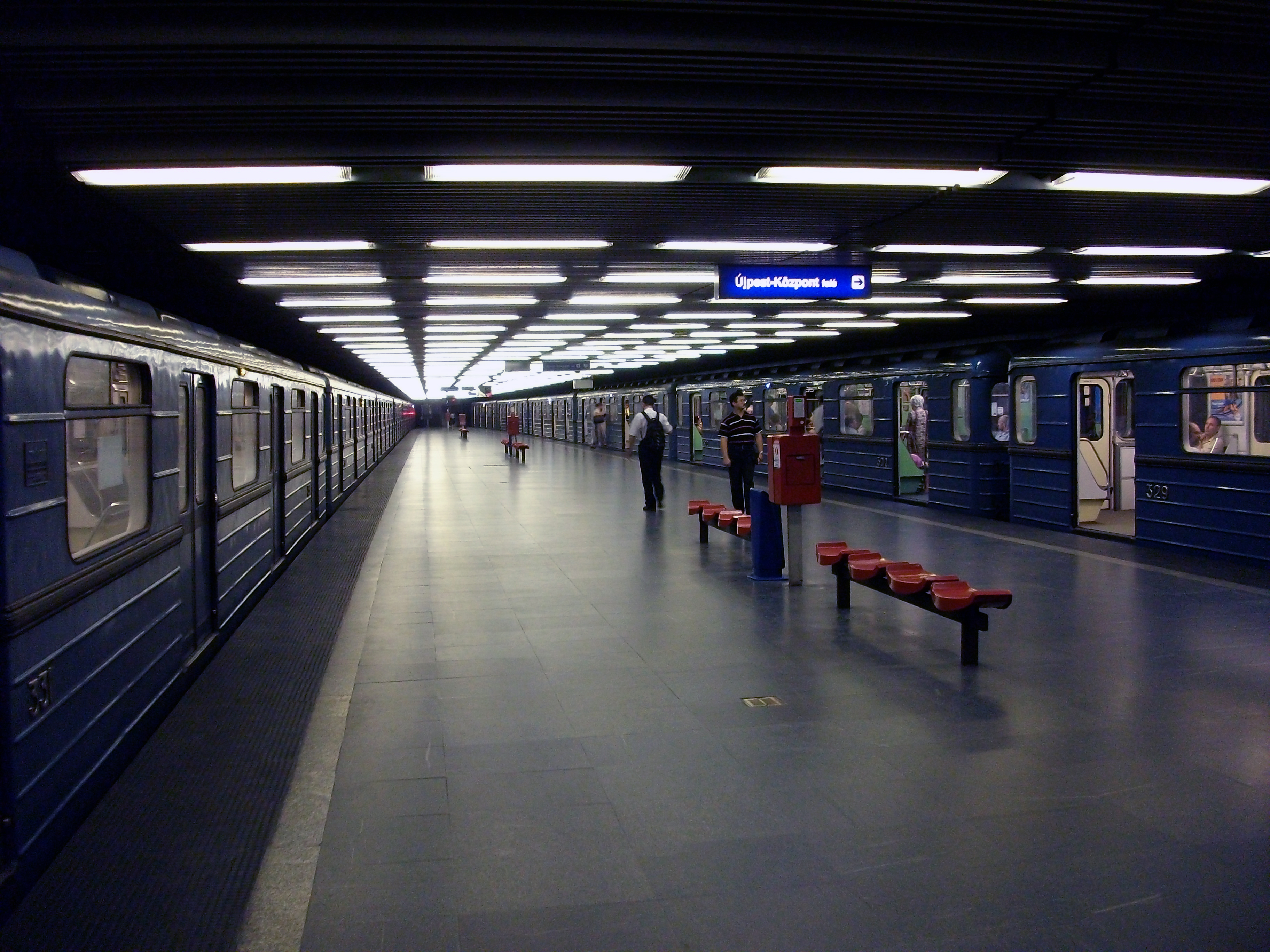 Határ út metro station, Budapest, Hungary